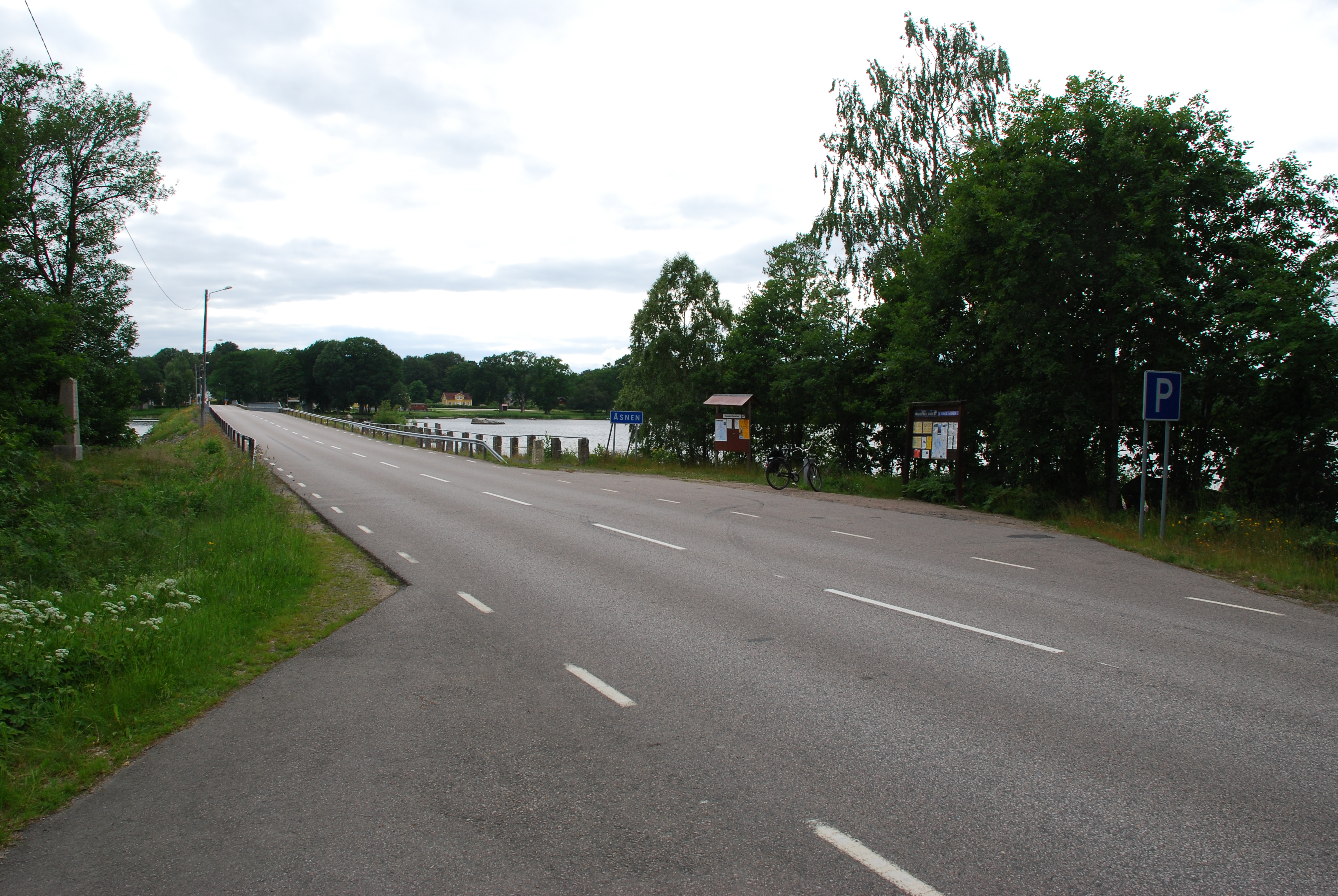 Bridge over Skatelövsfjorden at Torne